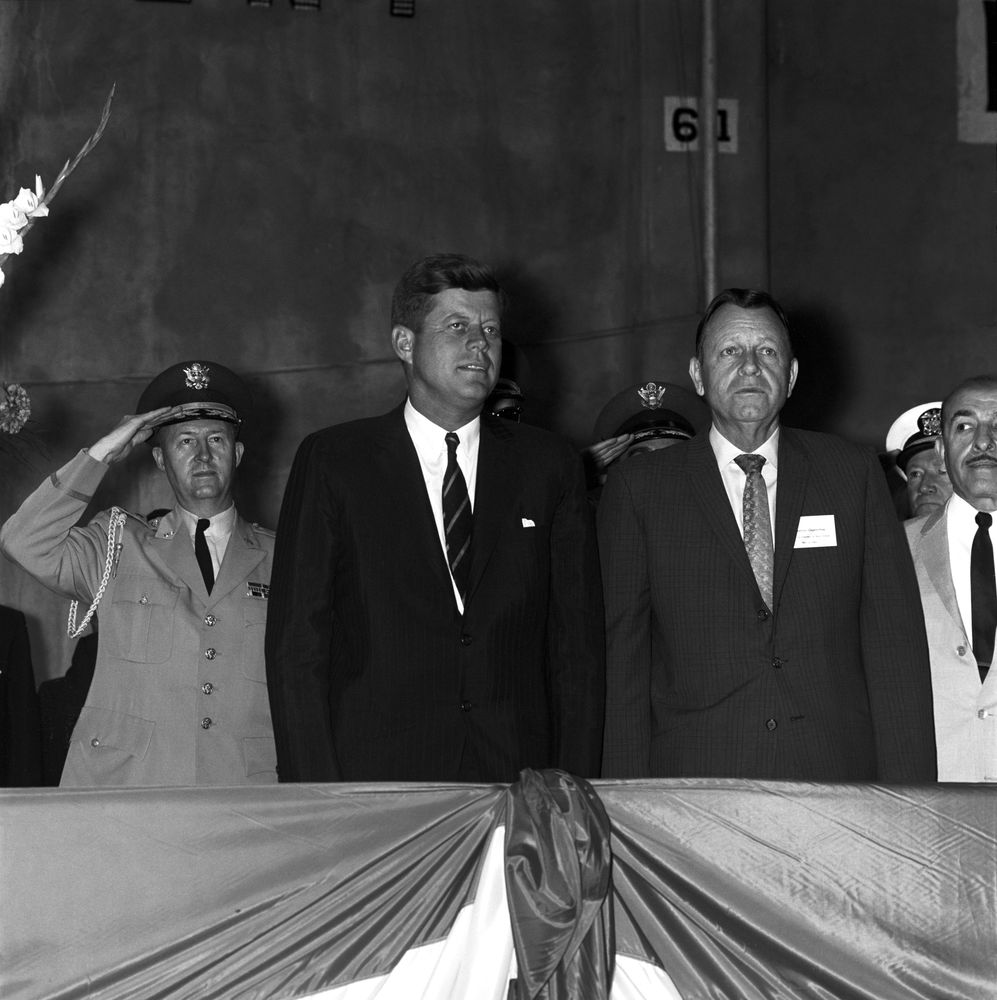 President John F. Kennedy attends a dedication ceremony for Nashville Avenue Wharf, a new dockside terminal at the Port of New Orleans in New Orleans, Louisiana. Left to right: Military Aide to the President, General Chester V. Clifton; President Kennedy; Governor of Louisiana, James “Jimmie” Davis; unidentified man (in back); Mayor of New Orleans, Victor H. “Vic” Schiro (on edge of frame). [Photograph by Harold Sellers] 4 May 1962